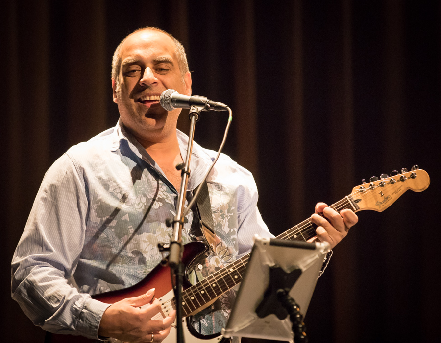 Javed Kurd performs with Ingrid Bjørnov at the stage of Cosmopolite. The concert took place on 05. April 2017 in Oslo. The concert marked the release of her new album "Jugekors & Sørgerender".Lineup:Ingrid Bjørnov (piano)Javed Kurd (guitar)Jon-Willy Rydningen (keyboard)Rino Johannessen (bass guitar)Ole Petter Hansen Chylie (drums)Kari Slåttsveen (spoken words)Øystein Sunde (guitar)